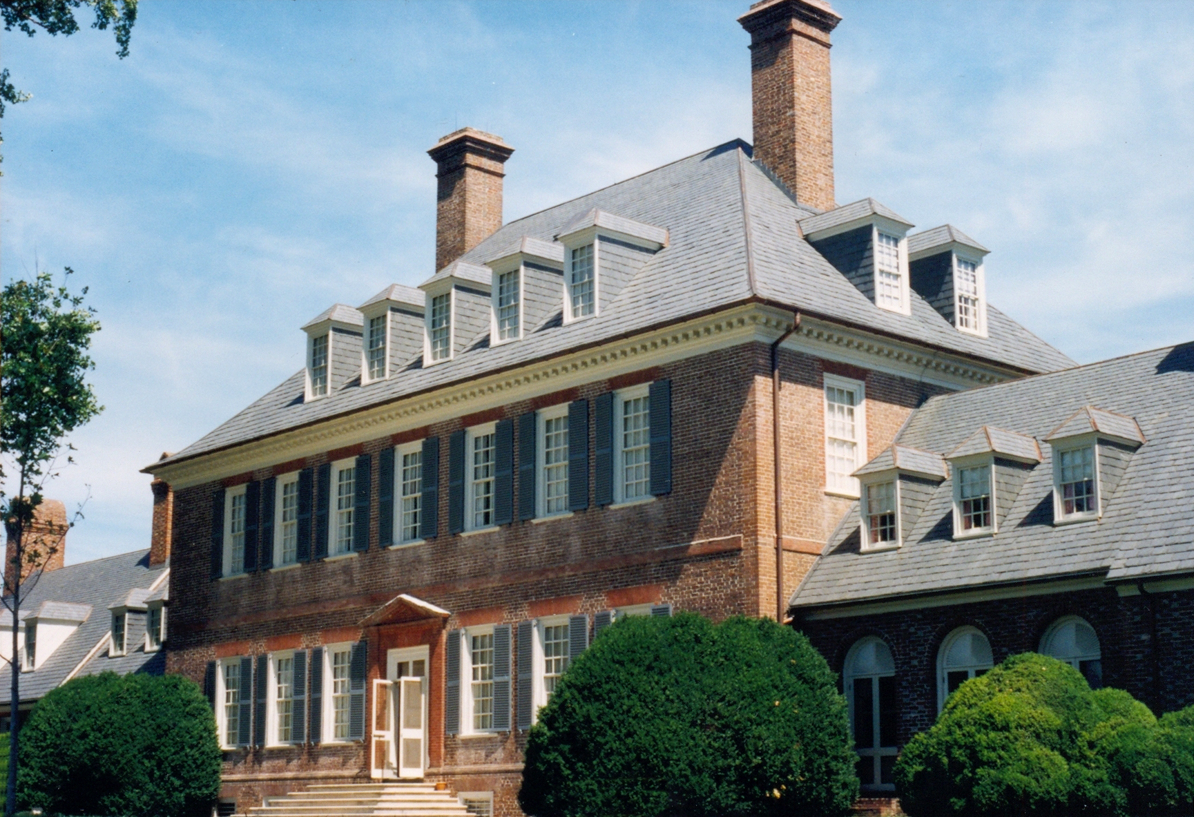 Carter's Grove Plantation near Williamsburg, VA